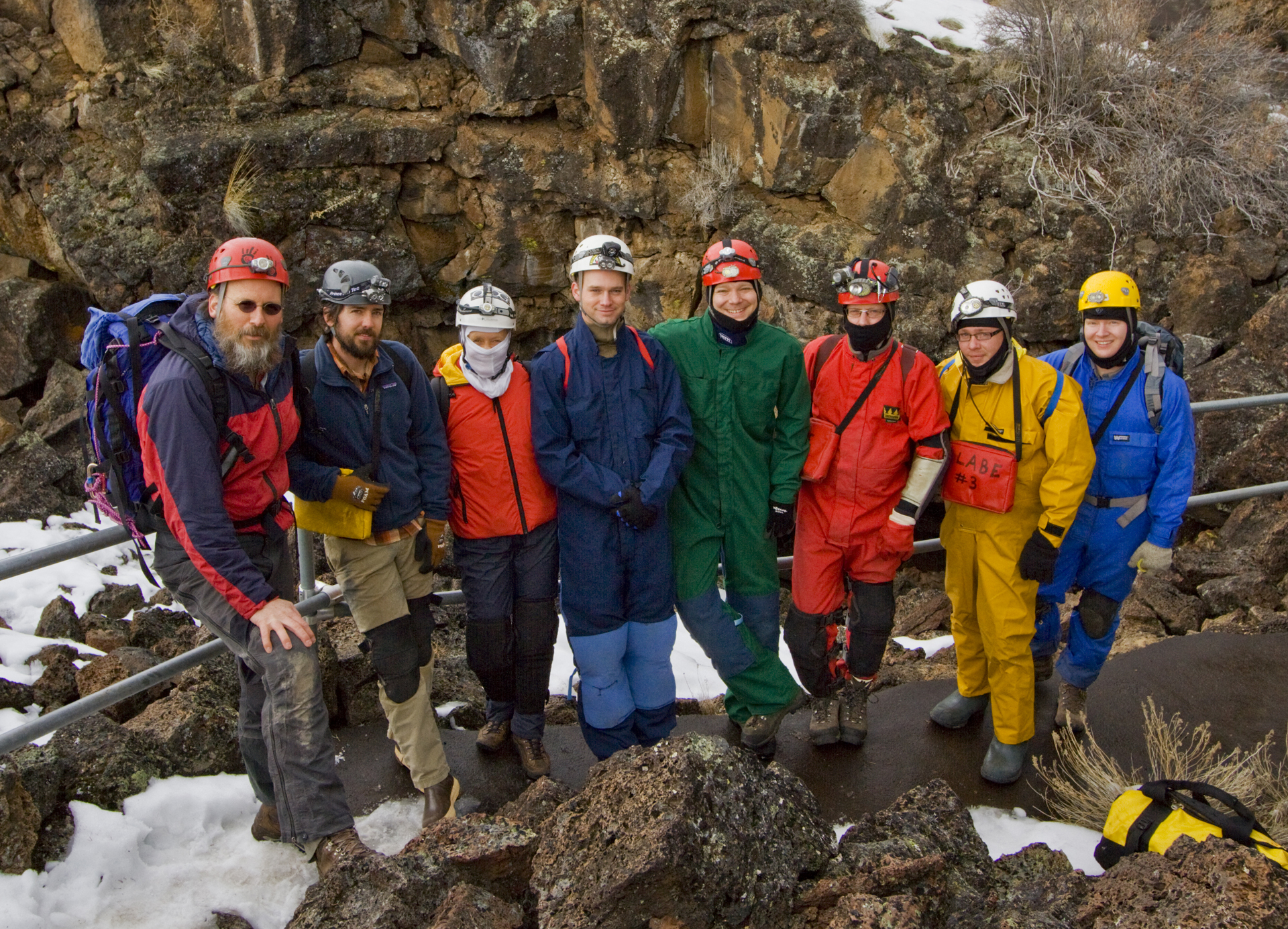 Members of the Oregon High Desert Grotto caving club. Photographed during a survey visit on Cave Loop at Lava Beds National Monument (March 13, 2011).